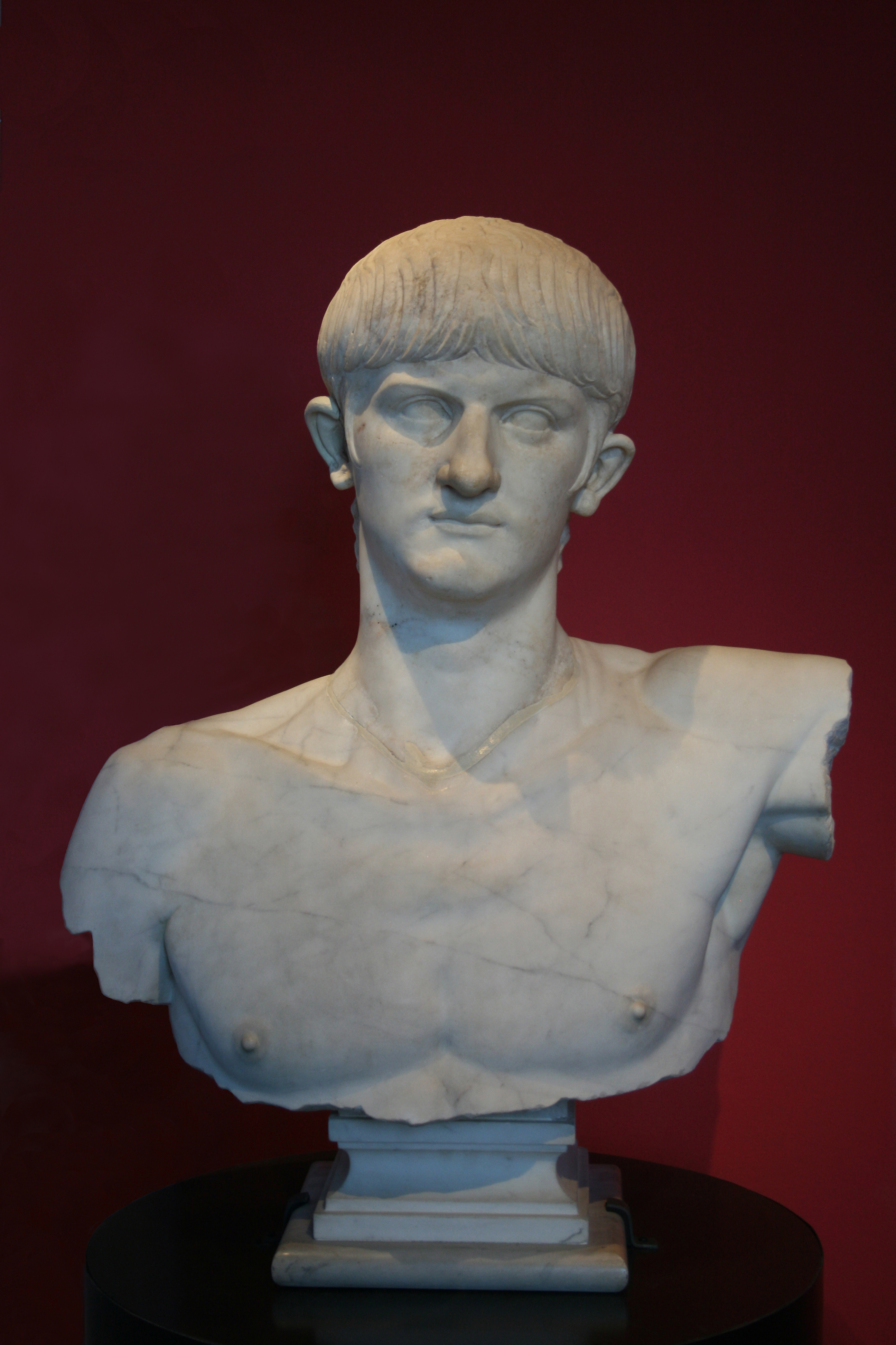 Portrait of Nero. Marble, Roman artwork, AD 54/55-59. From Olbia (Sardinia) - Tempory exhibition in Colosseum - Rome, Italy.